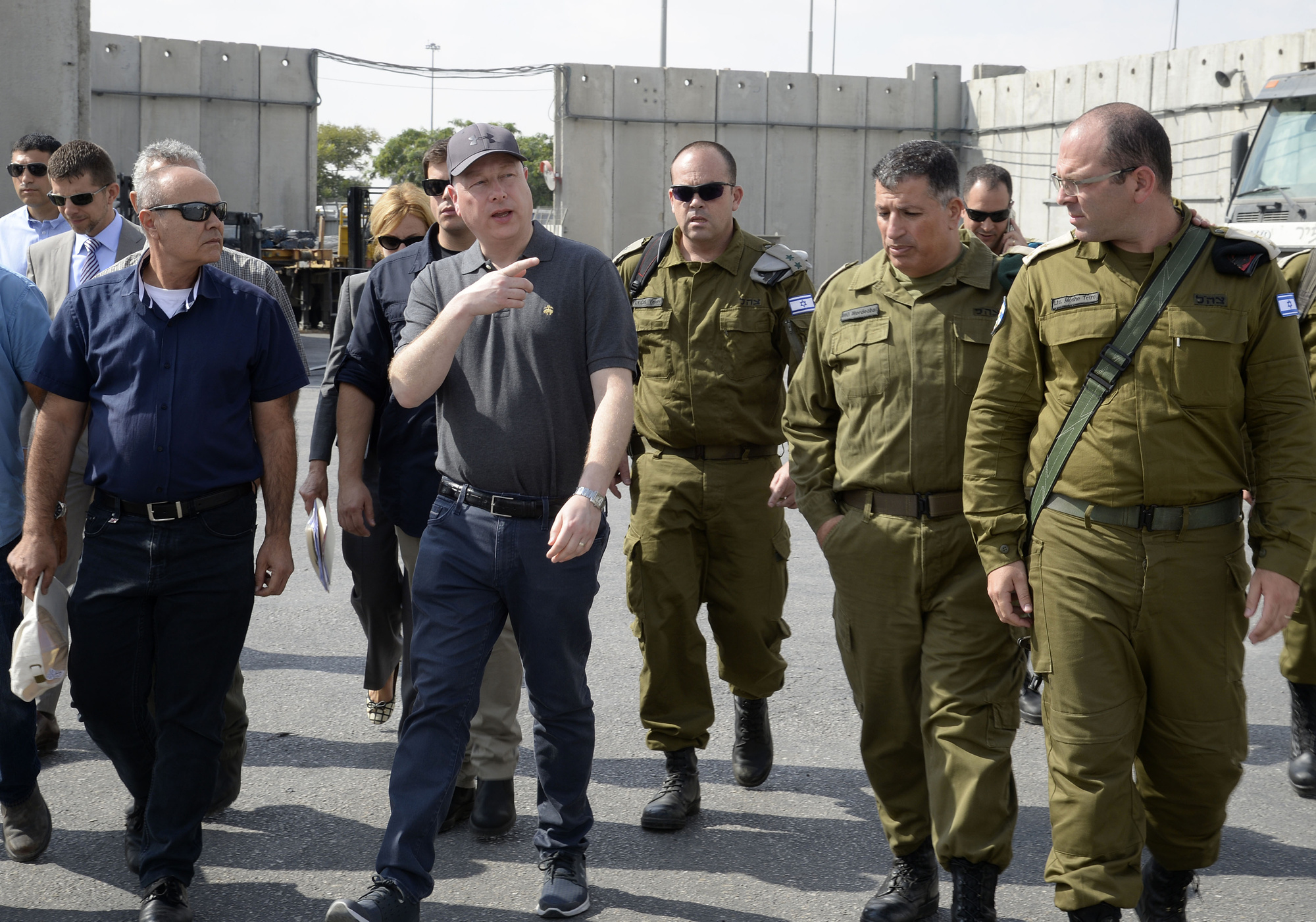 President Trump's Special Representative for International Negotiations Jason Greenblatt toured the Gaza periphery area, visited Ziv Hospital in Safed, and the Old City of Jerusalem, August 29-30, 2017.